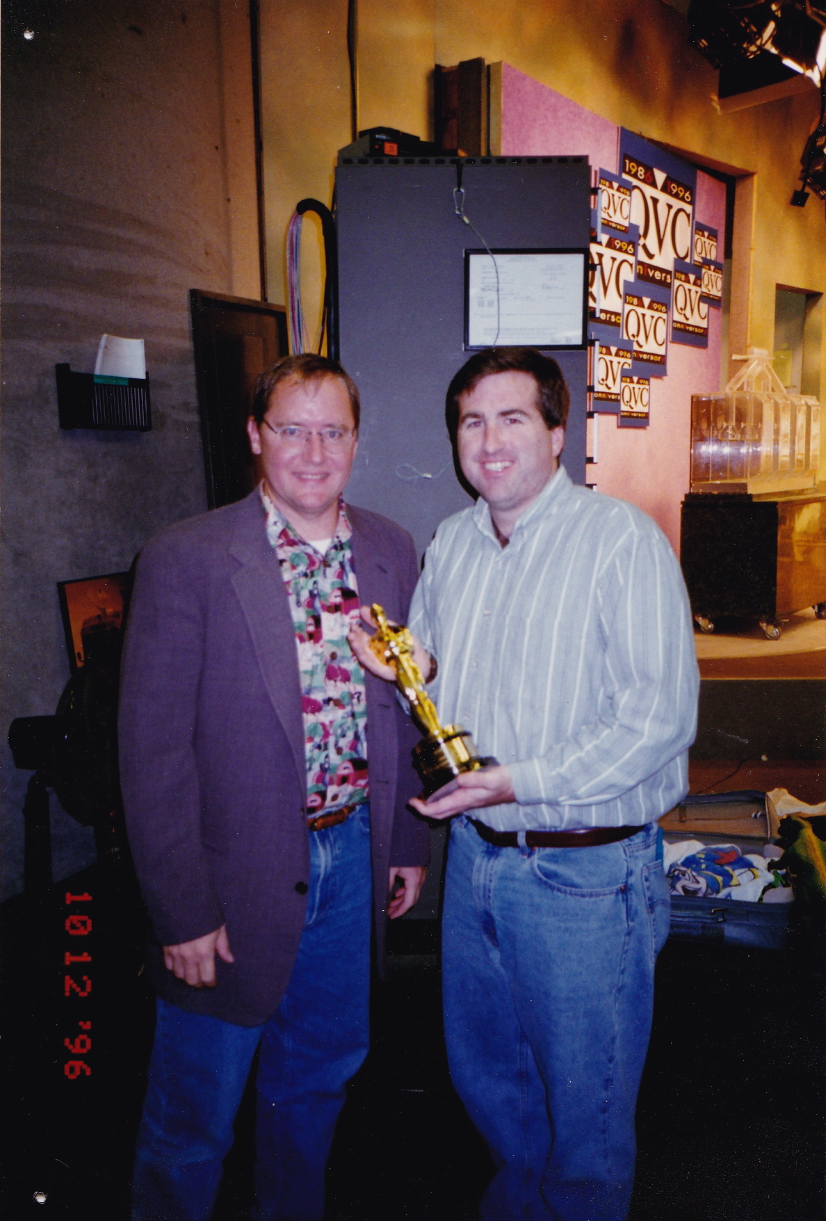 John Lasseter and QVC producer Jim Breslin in 1996